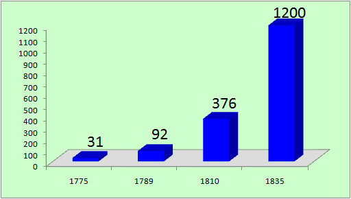 Modified version of File:Plot of newspaper growth.JPG. Used same colors; but removed splotchiness.